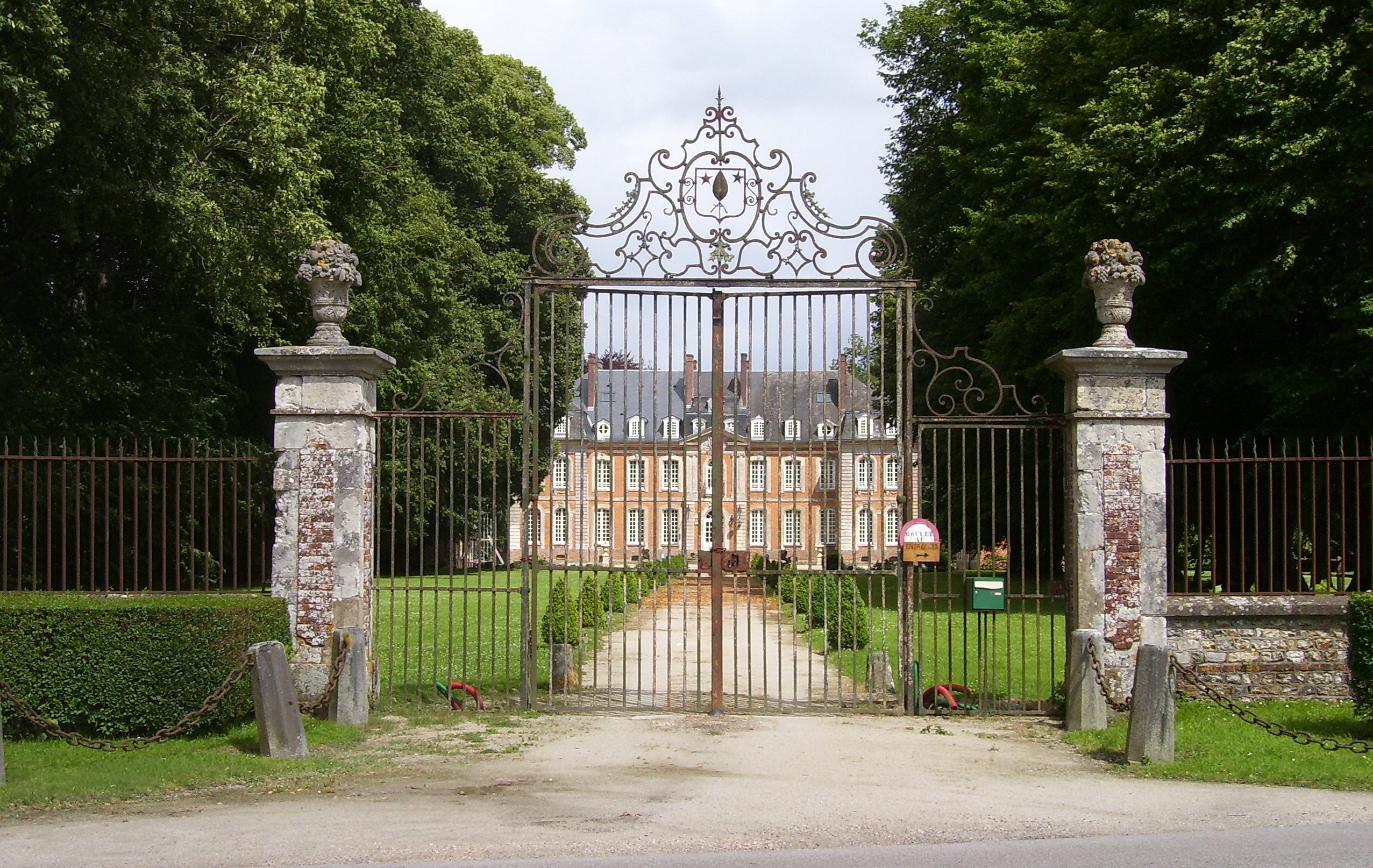 Entrance gate of the castle in Carsix (Eure, France).